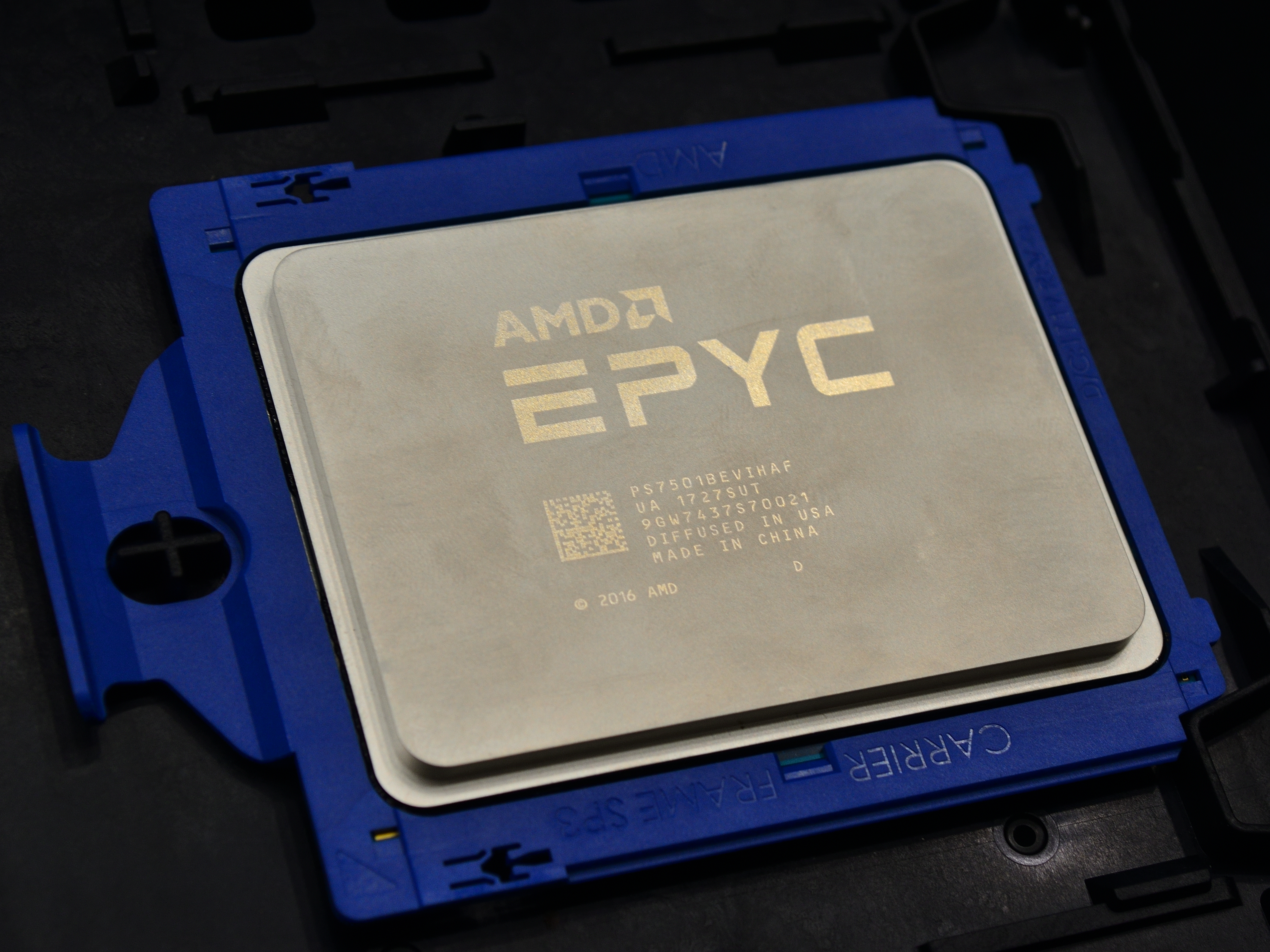 AMD Epyc 7501 processor (engineering sample), PS7501BEVIHAF